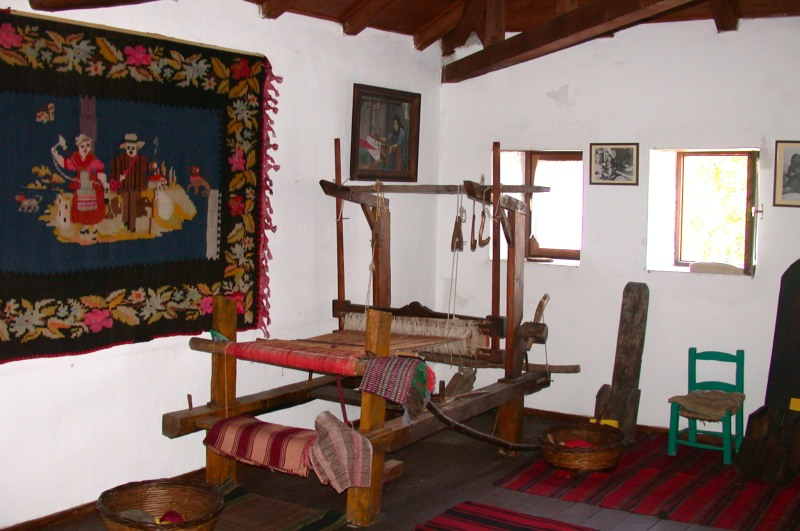 The traditional loom, image from the Folklore Museum, Limenaria, Thasos, East Macedonia, Greece